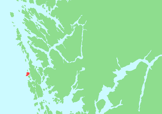 Locator map of Algrøy, Hordaland, Norway